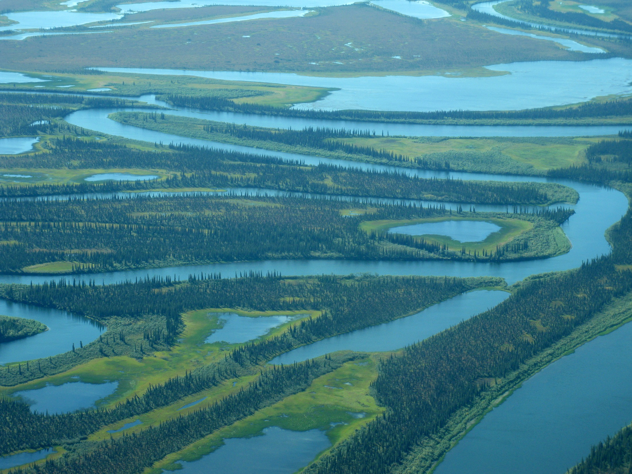 Kobuk River, meanders